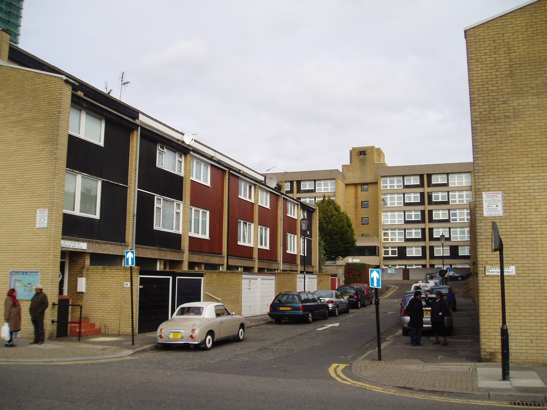 Housing in the Cheltenham Estate (1968-75) by Erno Goldfinger, Kensal Town, London Photo taken on a walk around North Kensington with the Twenteith Century Society on 4th October 2008, led by Suzanne Waters.